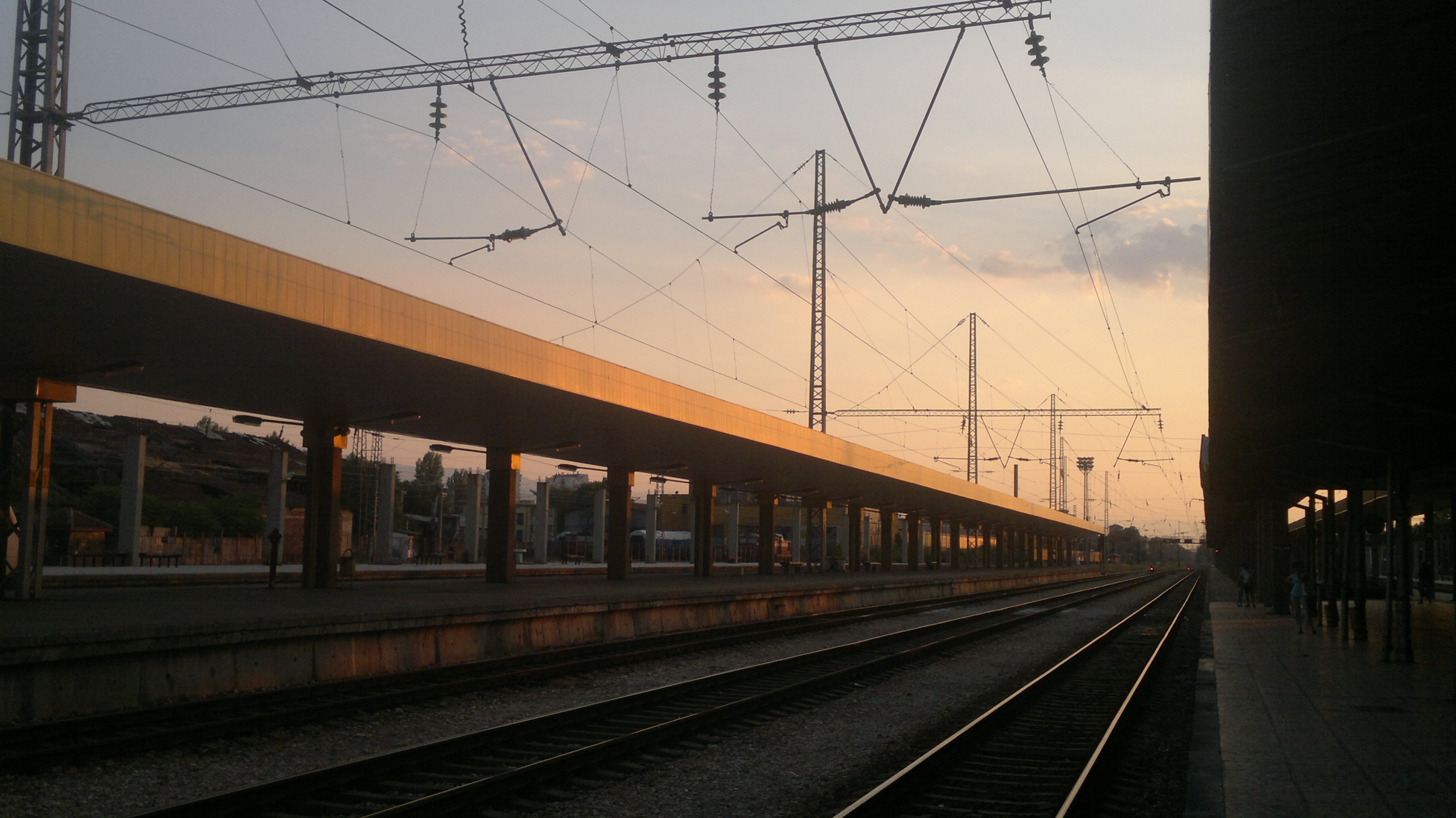 Railway Station Plovdiv, Bulgaria